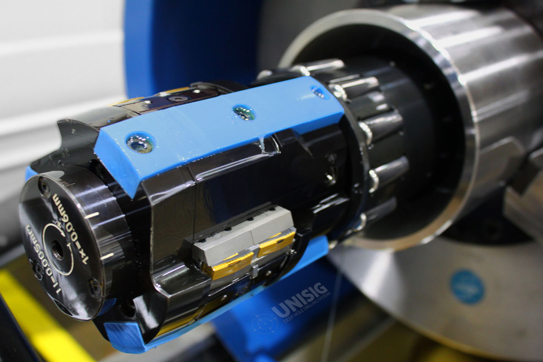 Skiving and Roller Burnishing Tool installed in a Skiving Machine